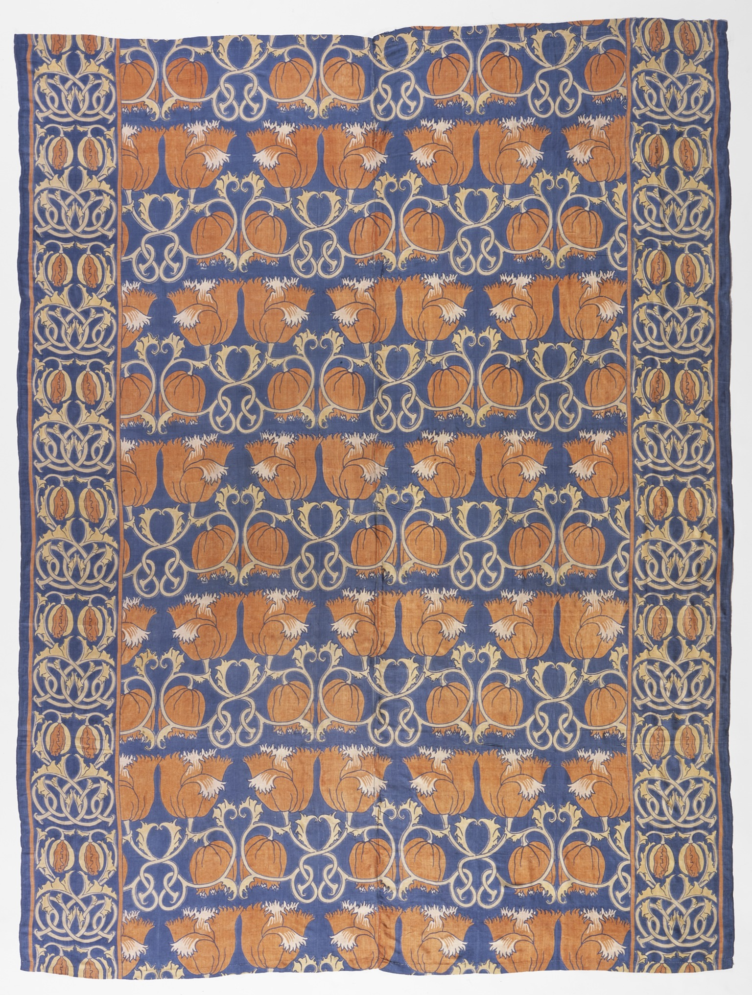 England, circa 1895, designed circa 1888 Textiles Block-printed silk 92 1/2 x 70 in. (234.95 x 177.8 cm) Gift of Ellen and Max Palevsky (AC1995.250.46) Costume and Textiles